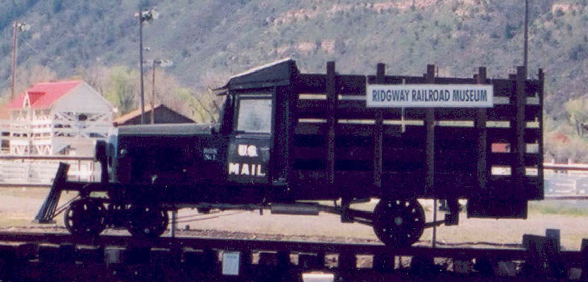 The Ridgway Railroad Museum preserves the history of railroading in Ouray County and other areas on the San Juan Skyway.